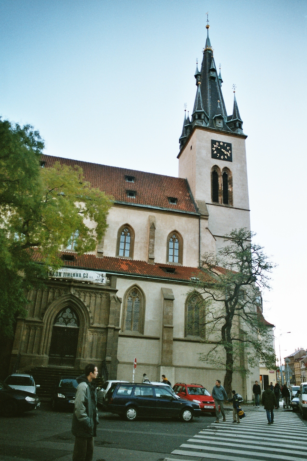 Church of St Stephen in Nové Město, Prague.